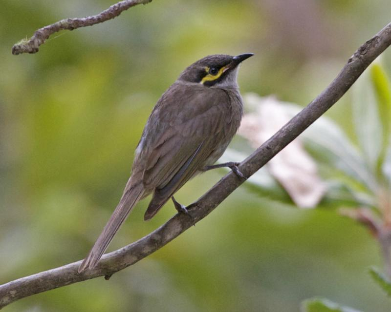 Yellow-faced Honeyeater Lichenostomus chrysops Nominate race, Lichenostomus chrysops chrysops Distribution: 690V6422